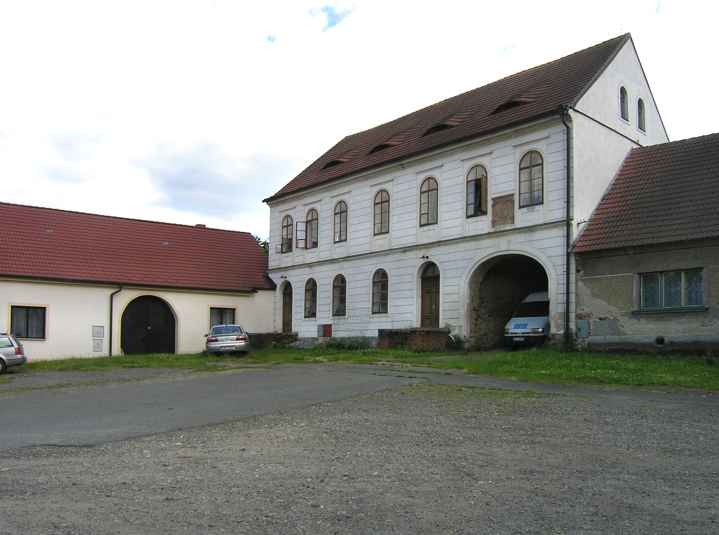 Castle in Křivosoudov, Czech Republic